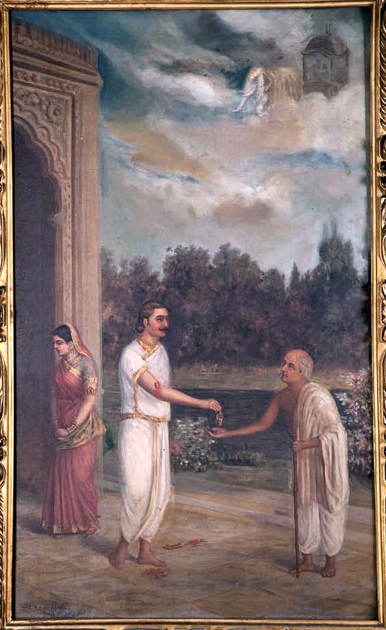 Bamapada Banerjee received his initial training in painting at the Calcutta Art School. However, disillusioned with its pedagogy, he left Art School and began training with Pramathalal Mitra. Later, he worked as an apprentice to the German painter Karl Becker, who was then living in Calcutta. Banerjee's popularity rested on his paintings that frequently illustrated Hindu mythology. He was deeply influenced by the European style of painting and excelled in it. Hence, he painted Indian and Hindu mythology in the European style, creating a great demand for his paintings. Though a junior contemporary of Raja Ravi Varma, the most influential artist of the time, Banerjee evolved an individual style and dominated the popular taste for decades through reproductions of his works, most of which were printed in Germany. Towards the end of the great Mahabharatha war, Lord Indra comes in the guise of a destitute old man to seek alms from Karan, who was under an oath to never refuse charity. This painting shows Karan offering an old poor man, bent with age and destitution, a Kavach that is embedded in his arms and is retrieved by culling with a knife. This seems like the only piece of jewellery that he has left to offer. Even as he gives it to the old beggar, Karan is aware of Lord Krishna's ploy and that Lord Indra has been sent in the semblance of an old beggar to deprive him (Karan) of his only opportunity of being eternal. Besides, for Lord Krishna perhaps this could be the only way the Pandavas could annihilate Karan and win the Mahabharat war. Karan's wife depressed by the situation quietly stays aside. What makes the painting intriguing is the presence of the ceremonial elephant with a carriage in the clouds, as if descending from heaven. Framed in its original ornate and very decorative frame, the painting is enhanced further. It is apparent that this painting adorned a palatial home.